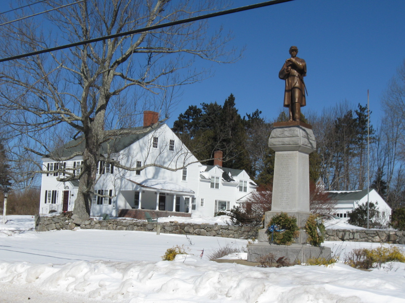 Historic center of Candia, United States, with American Civil War monument